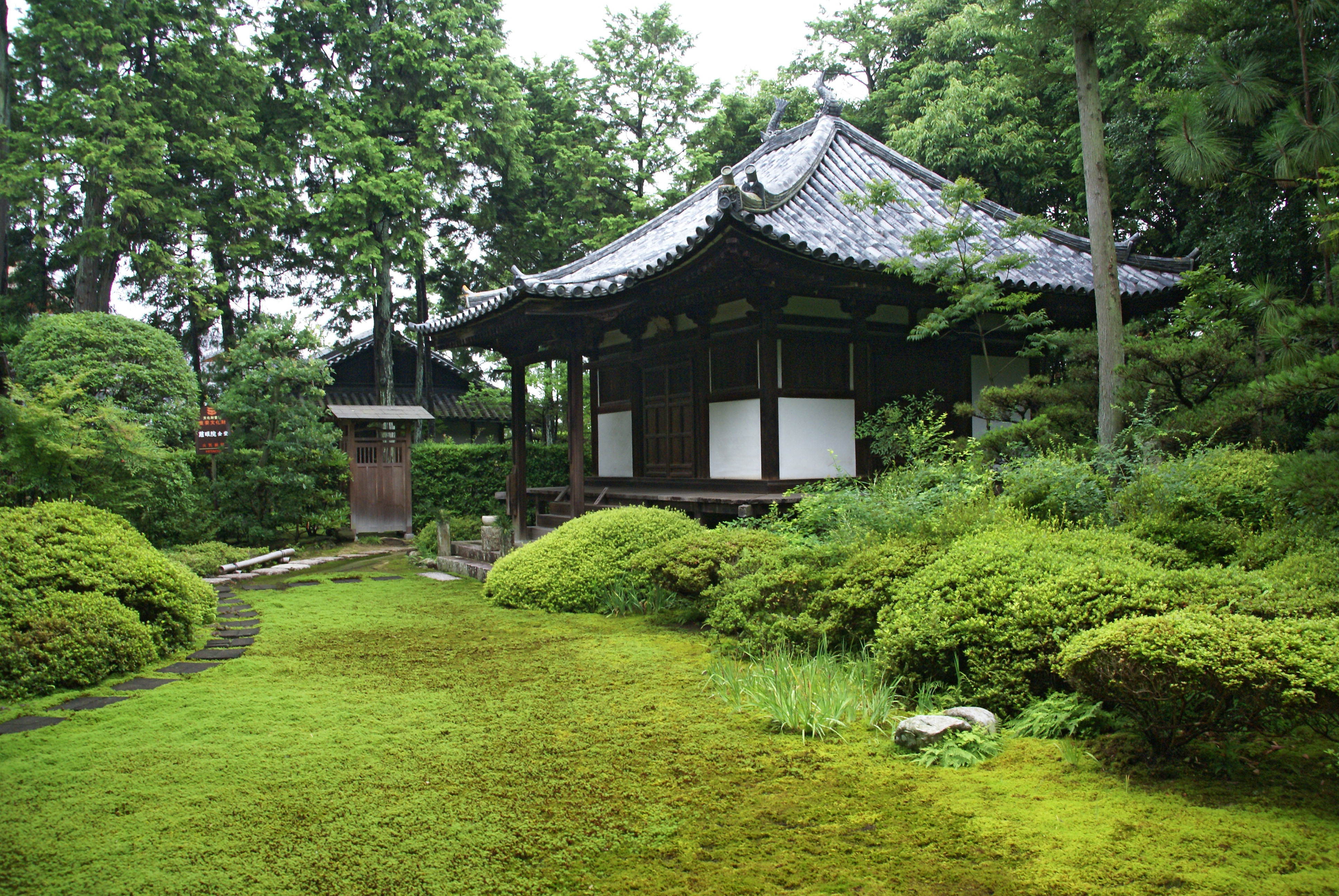 Jigenin's Kondo is a Japan's National Treasure in Izumisano, Osaka prefecture, Japan